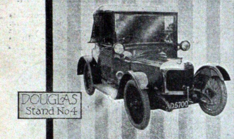 1920 Douglas 10.5 h.p. 2/3 passenger DHC, top up. Appears standard coachwork. Illustration first appeared in November, 1919.